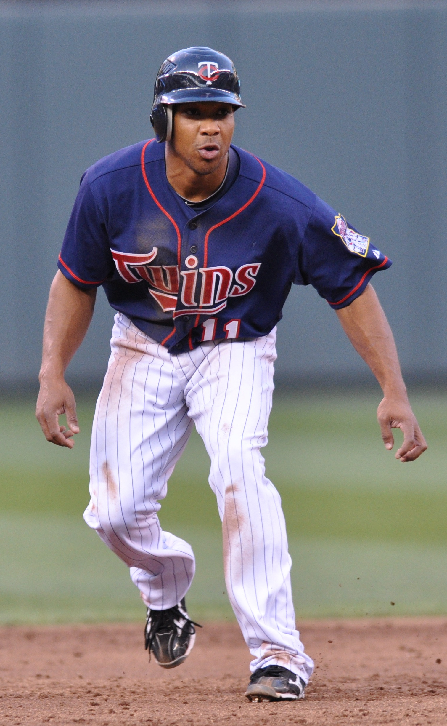 Ben Revere